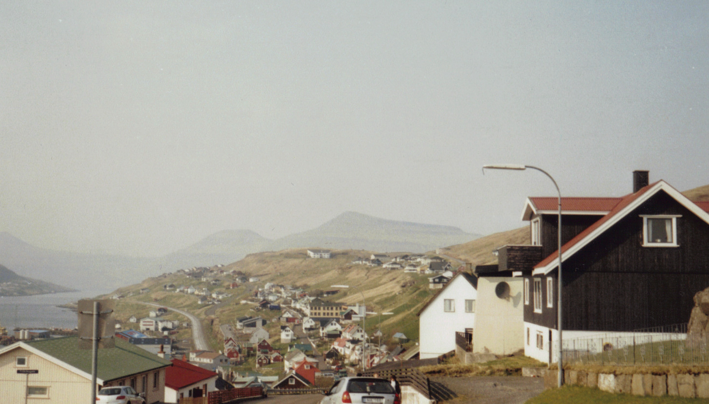 Village of Toftir, Faroe Islands